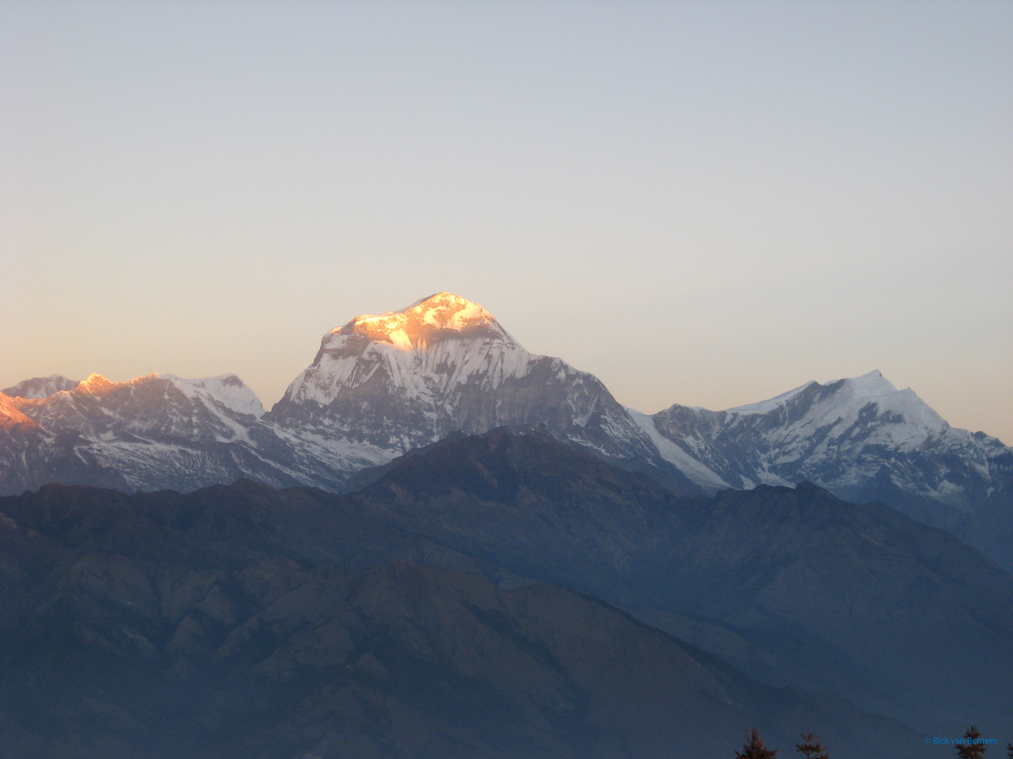 Dhaulagiri with a Golden Top (Sunrice)